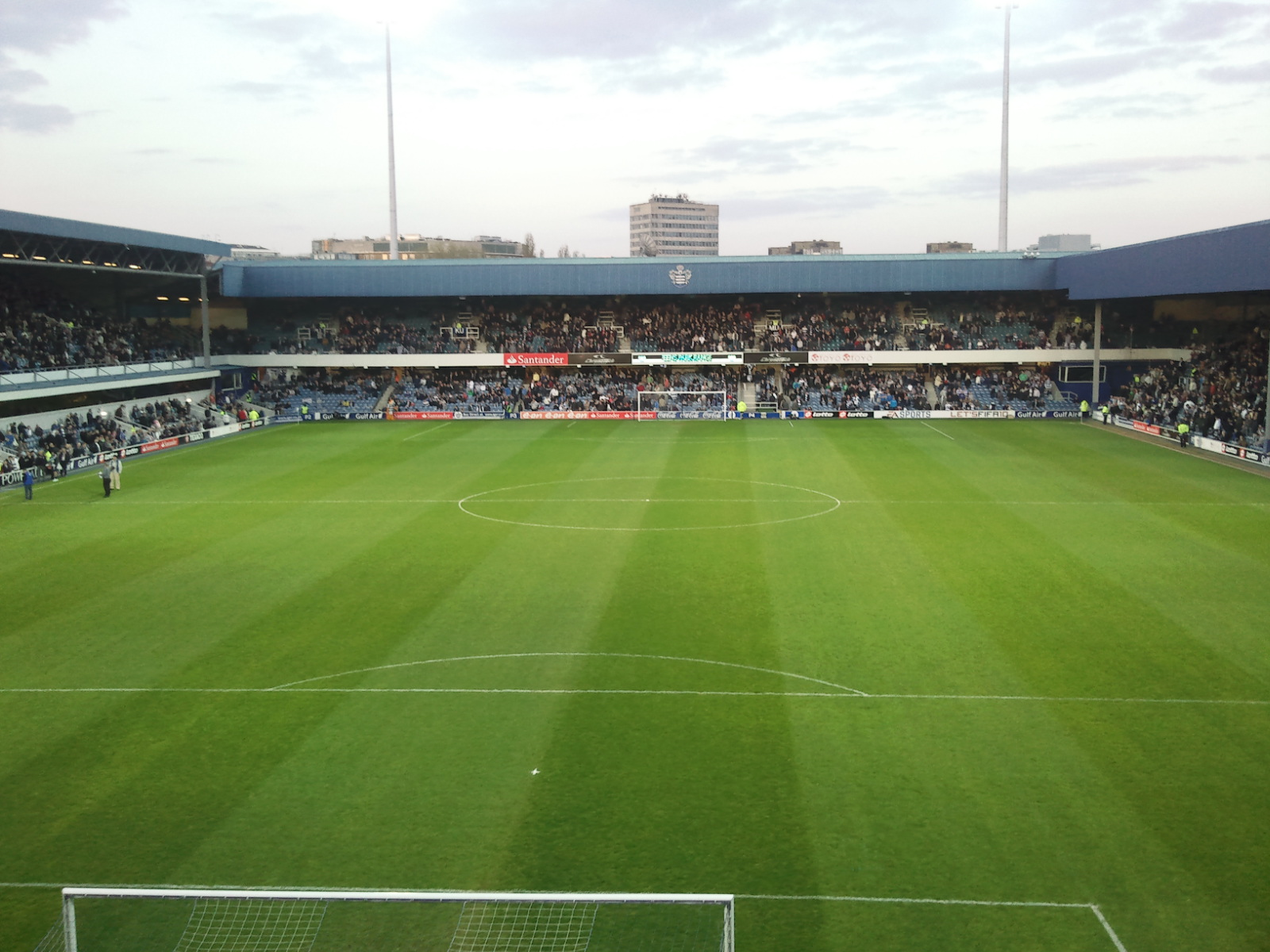 3rd visit to Loftus Road